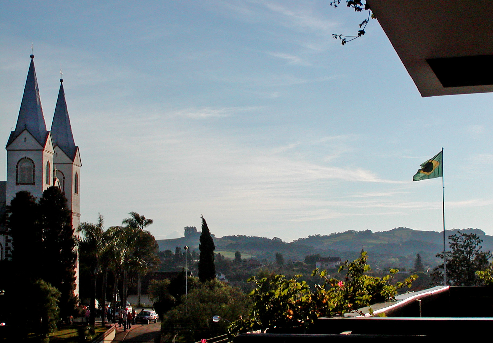 The church, hotel balcony and a view of the hills surrounding the small town of Treze Tílias, originally in German Dreizehnlinden, founded by Austrians, in the southern state of Santa Catarina, Brasil.